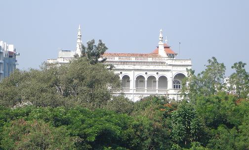 Pravin Gupta Self clicked